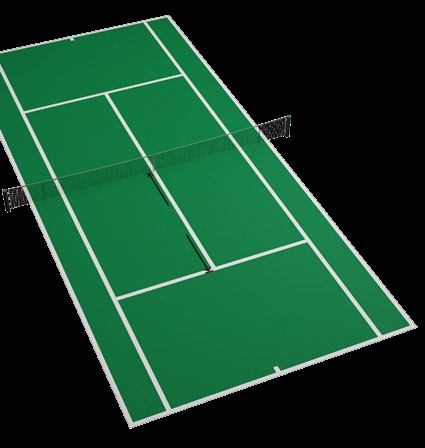 tennis